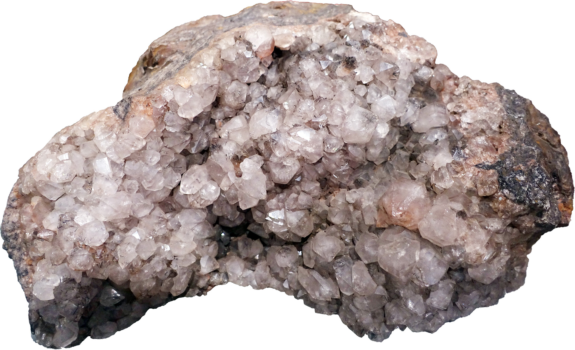 M Shed museum, Bristol.